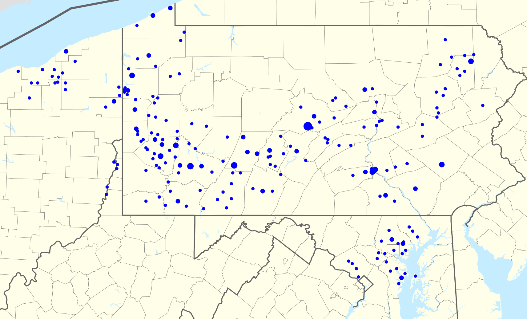 Footprint of FNB Corporation as of June 2011. Cities with more than one branch have progressively larger points.